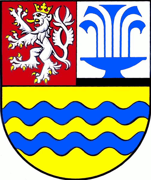 Municipal coat of arms of Lázně Toušeň market town, Prague-East District, Czech Republic.